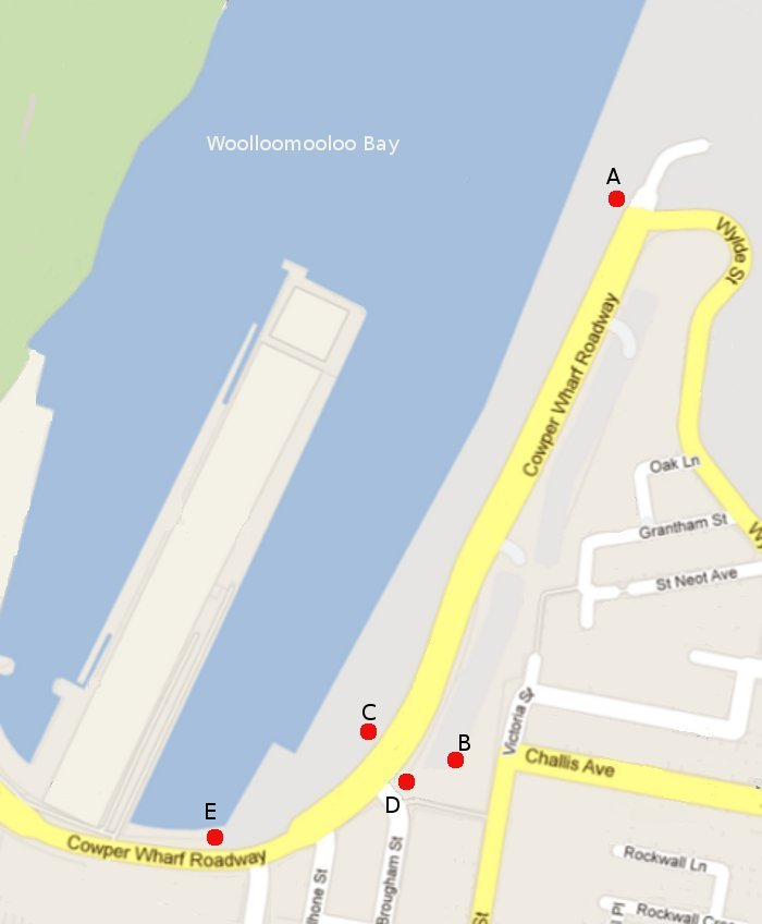 Historical locations of Harry's Cafe de Wheels - Woolloomooloo Bay, 1938-2012